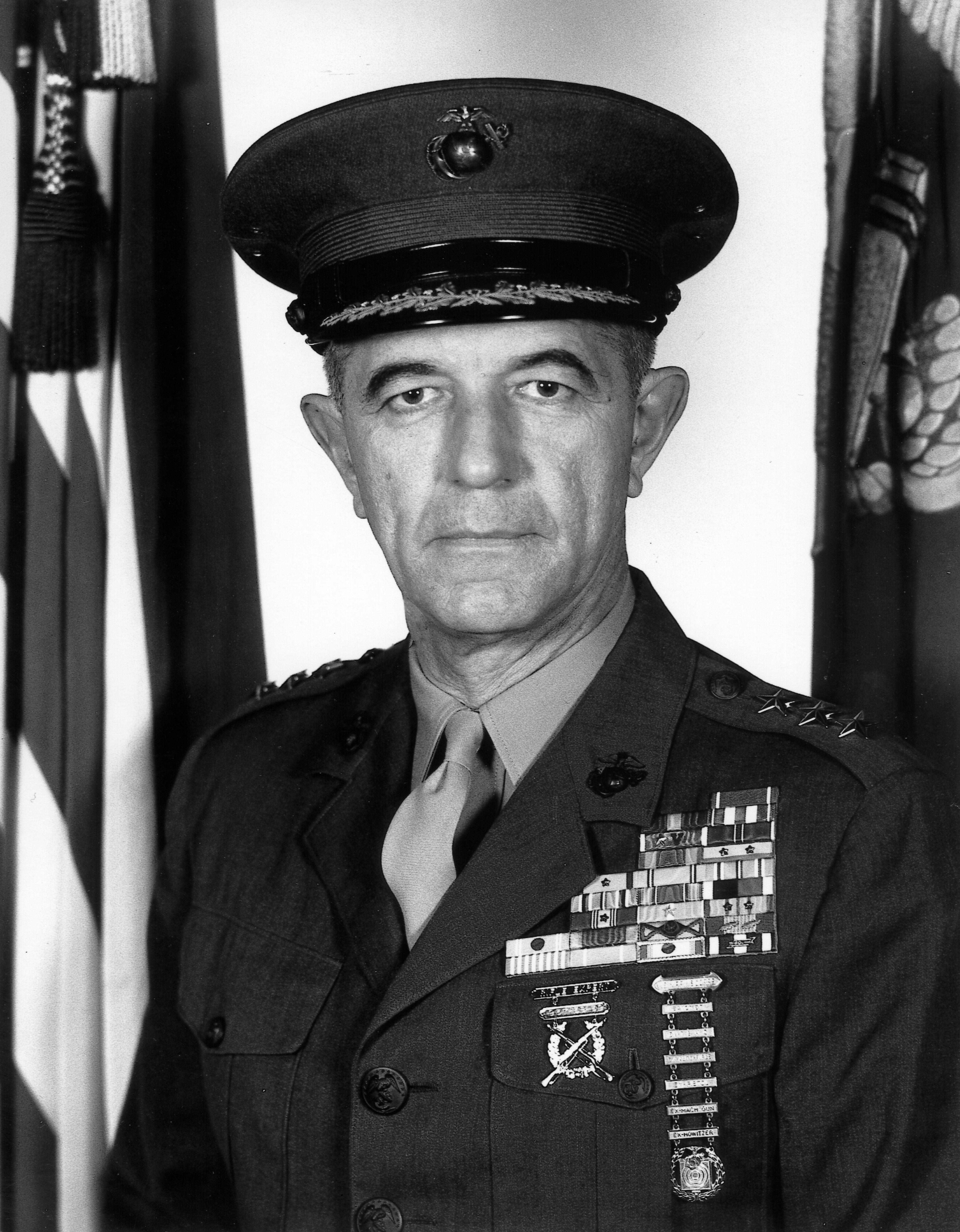 Herman Nickerson Jr. (July 30, 1913 - December 26, 2000) was a highly decorated officer of the United States Marine Corps with the rank of Lieutenant General. A veteran of several wars, he distinguished himself during Korean War as Commanding officer, 7th Marine Regiment and received Distinguished Service Cross, the second highest military award that can be given to a member of the United States Armed Forces for extreme gallantry and risk of life in actual combat with an armed enemy force. He served two tours of duty in Vietnam and distinguished himself as Commanding general, III Marine Amphibious Force which was responsible for all marine forces in the later part of the Vietnam War. Following his retirement, Nickerson worked as Chairman, National Credit Union Administration.